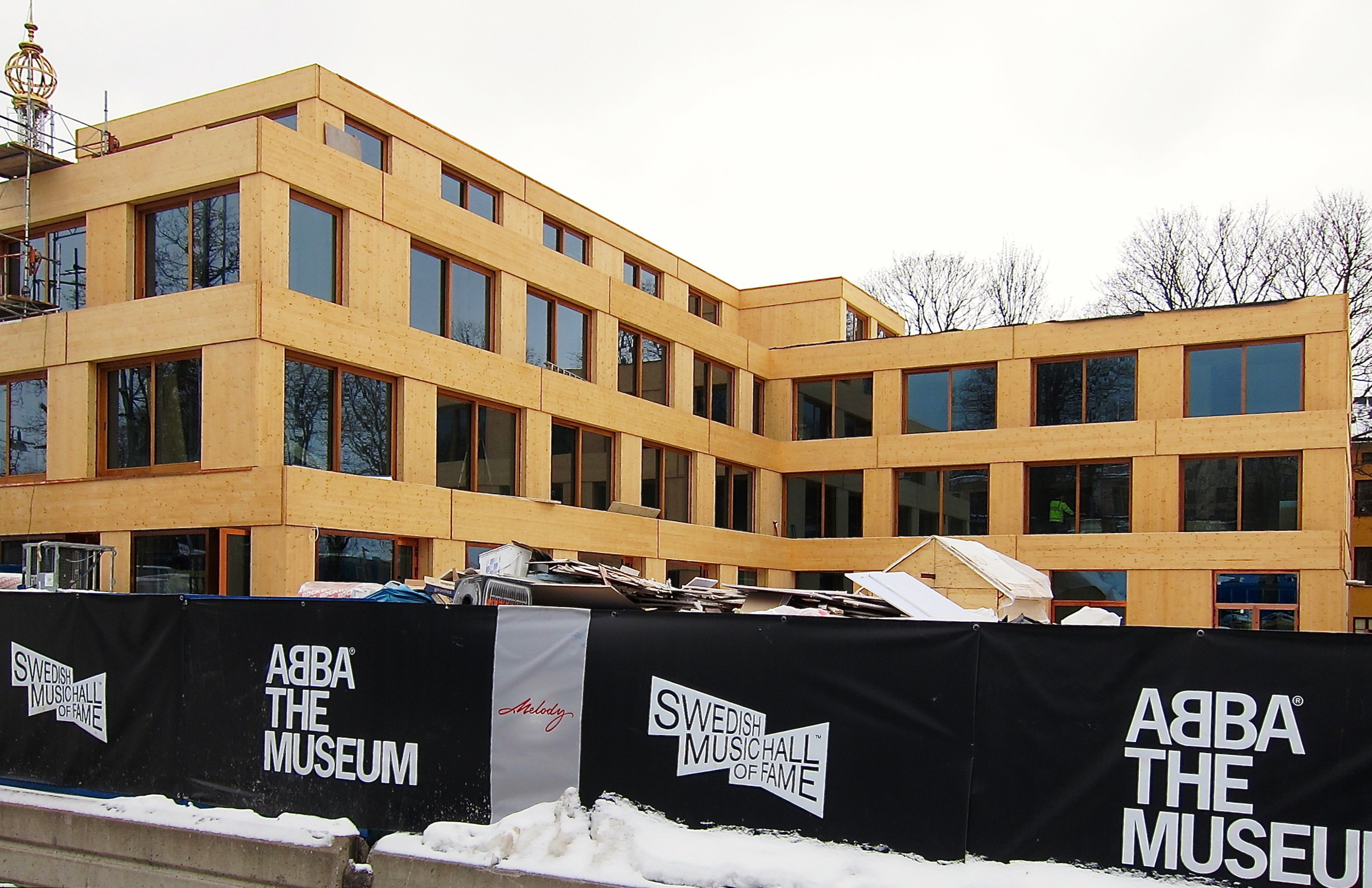 The upcoming ABBA museum under construction.